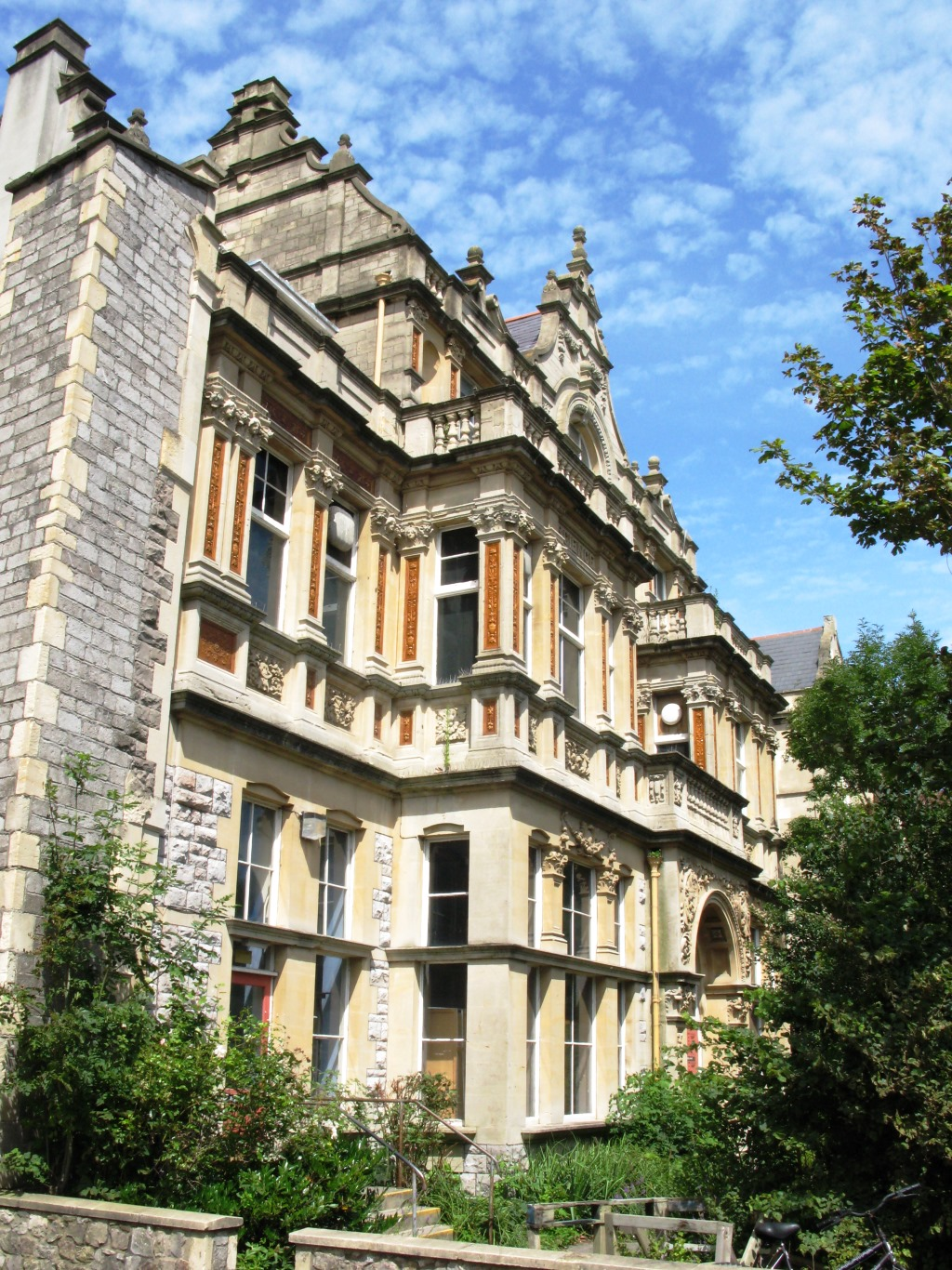 School of Art, Weston College, Church Road, Weston-super-Mare, Somerset, England. Architect Hans Price.